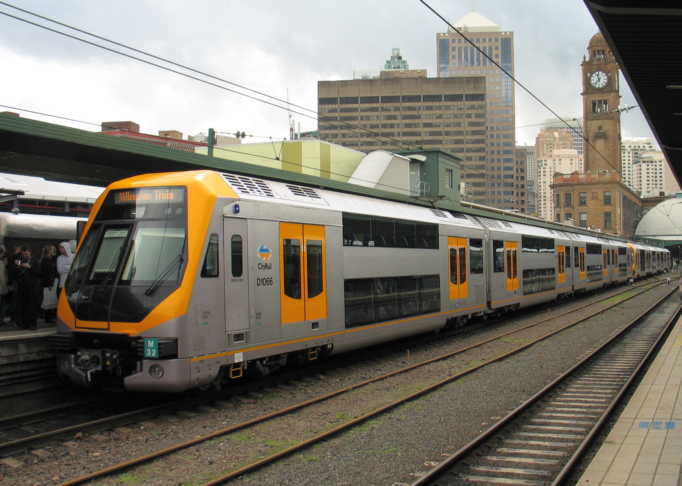 Millennium set M32 at Sydney Central.